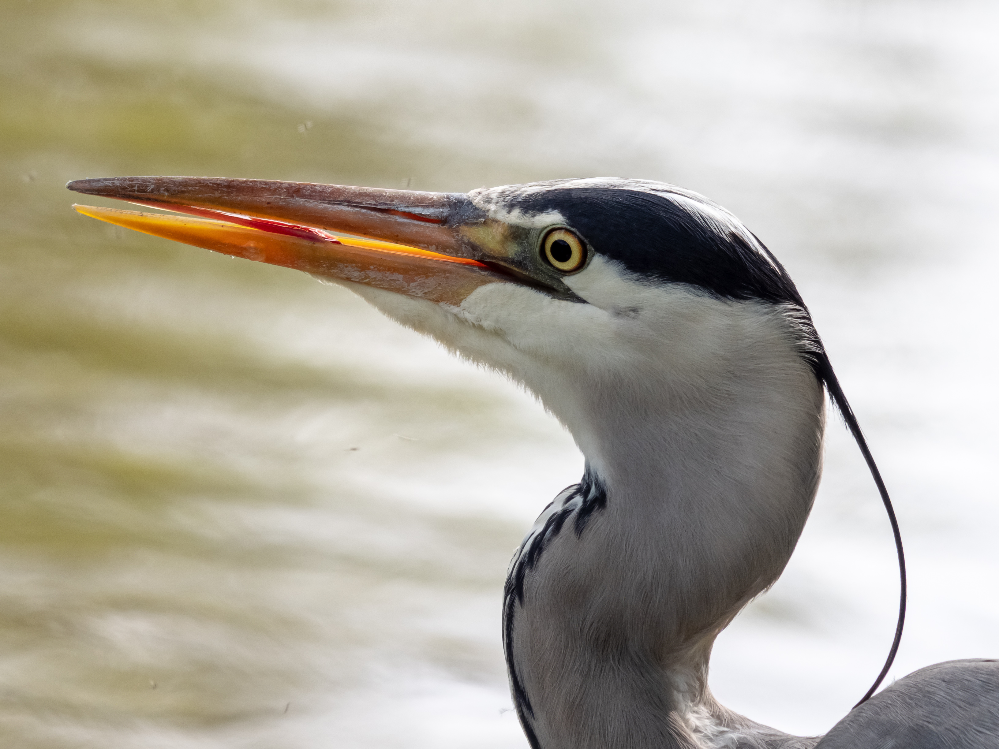 Grey Heron Portrait in the Hain Bamberg